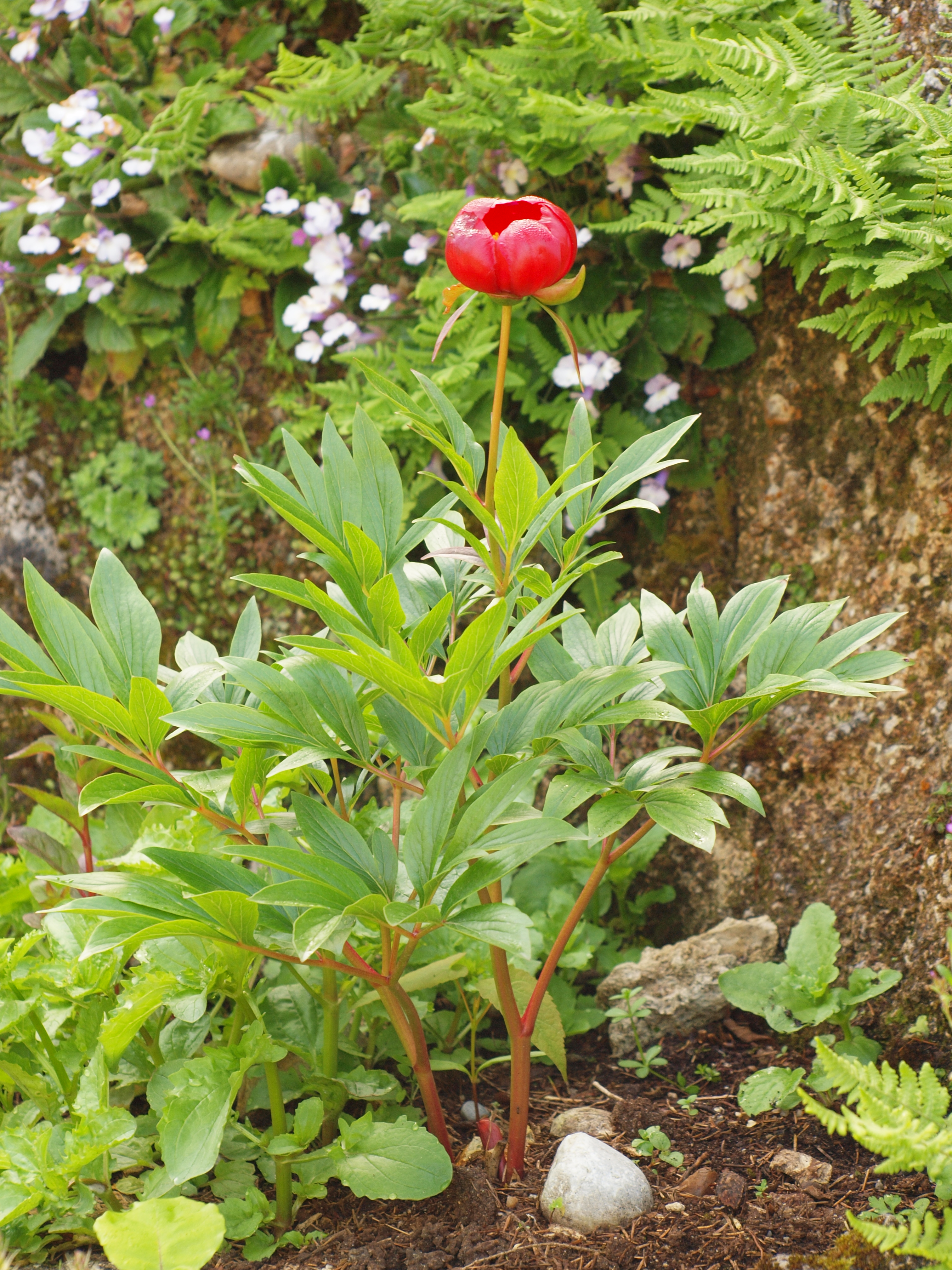 Paeonia saueri or Paeonia parnassica